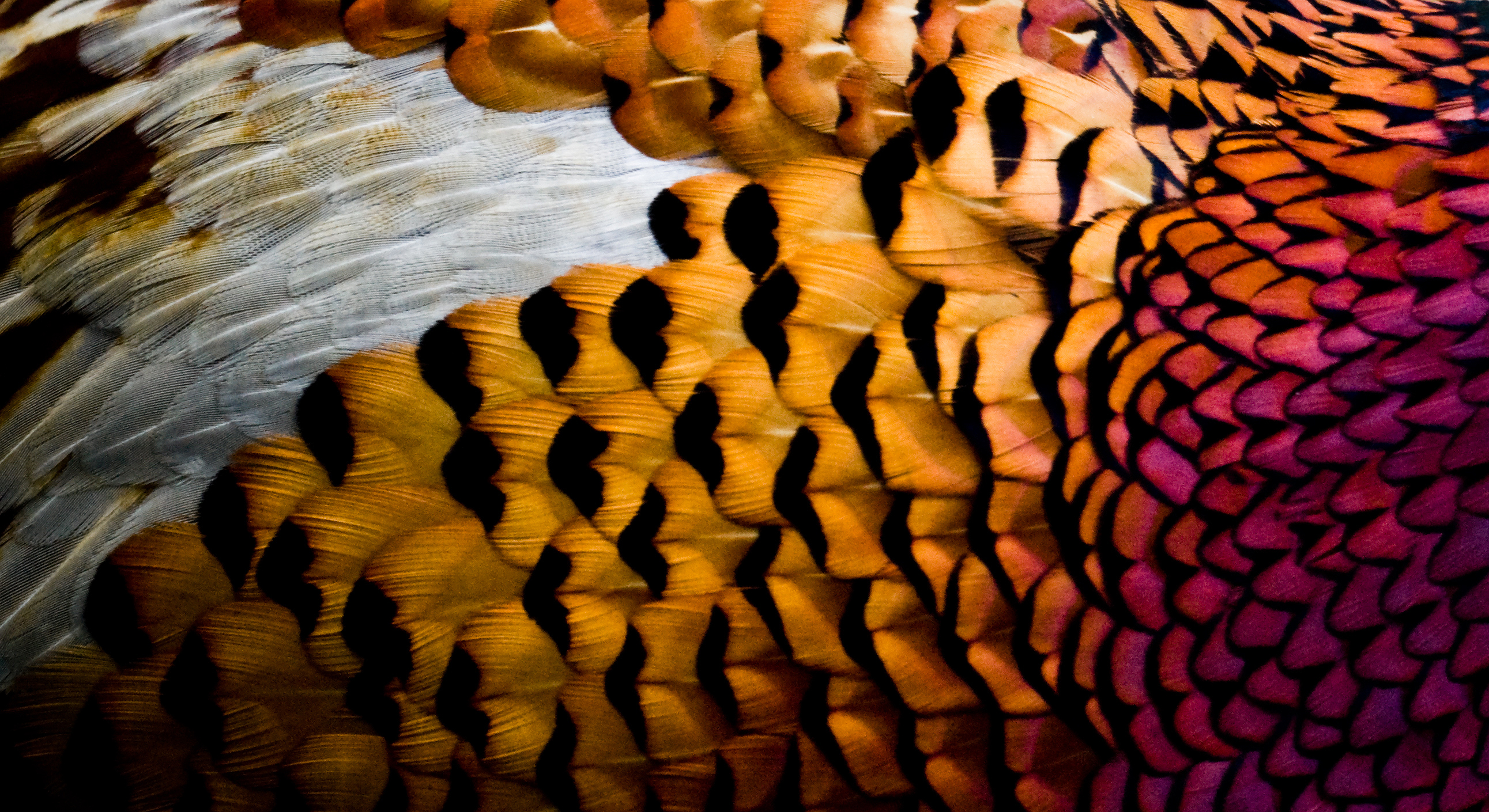 Close up of the plumage of a Common Pheasant